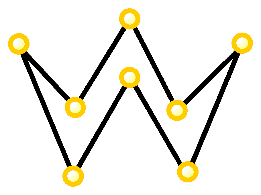 Molecular_Sulfur_(S8)